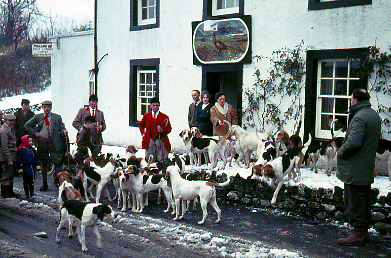 Keswick Boxing Day hunt at the Pheasant Inn, 1962